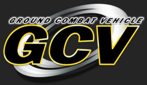 BCT Ground Combat Vehicle Program logo